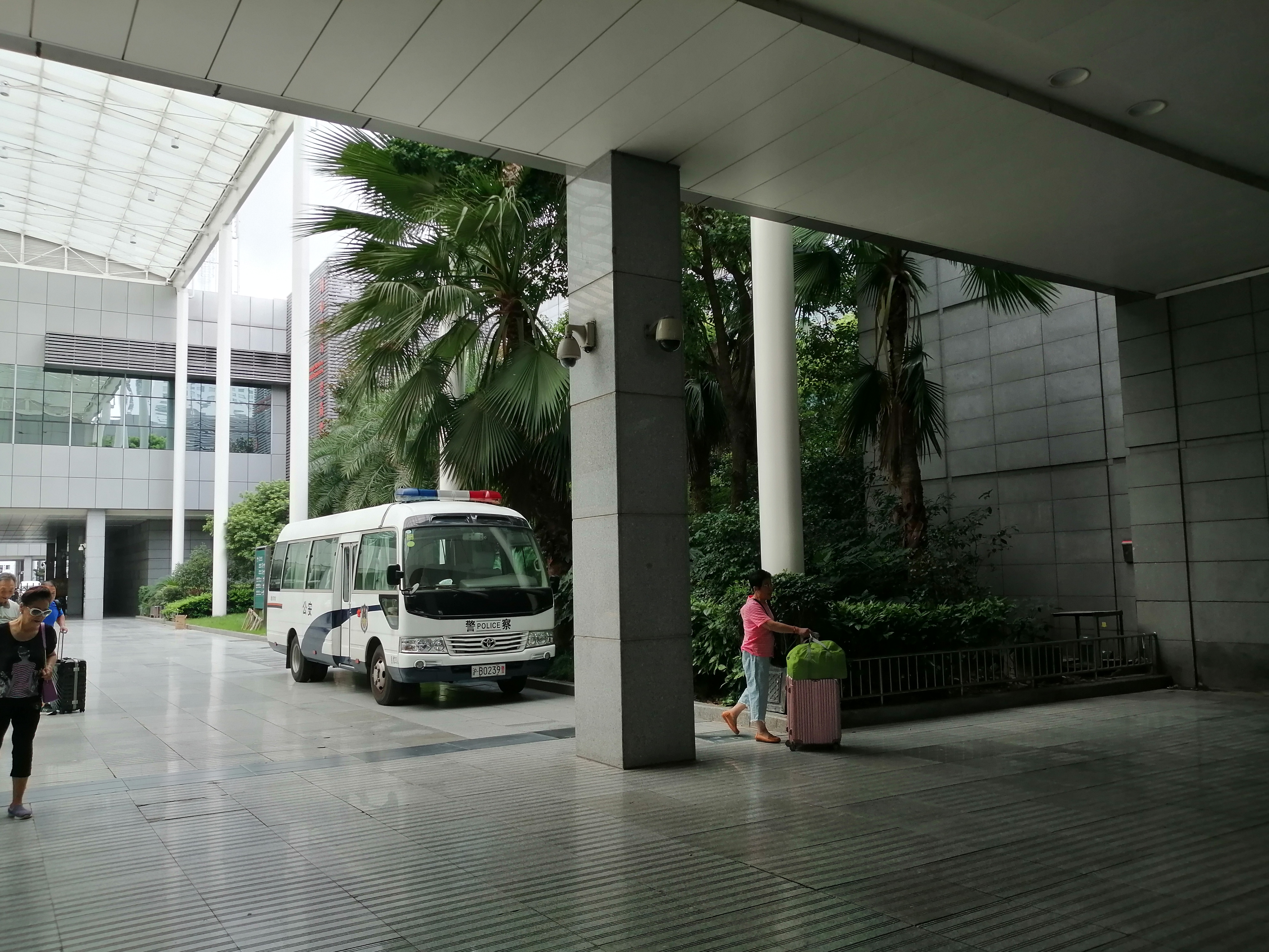 A Toyota Coaster Police car at Platform 1 of Shanghai Railway Station. The car is belong to Immigration Inspection Station. 中文（中国大陆）: 隶属边检站的丰田考斯特警车停放在上海站一站台